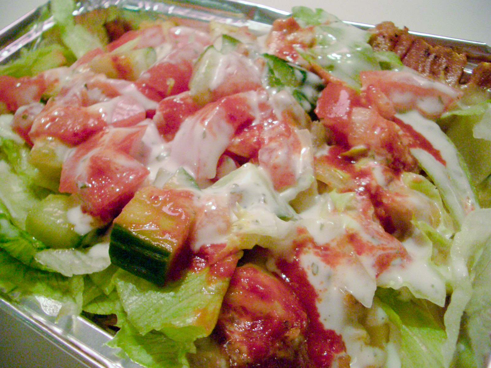 Kapsalon